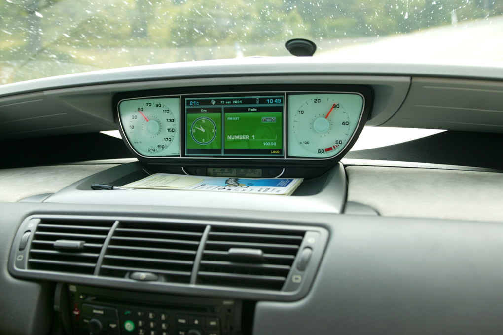 Fiat Ulysse instrument panel.